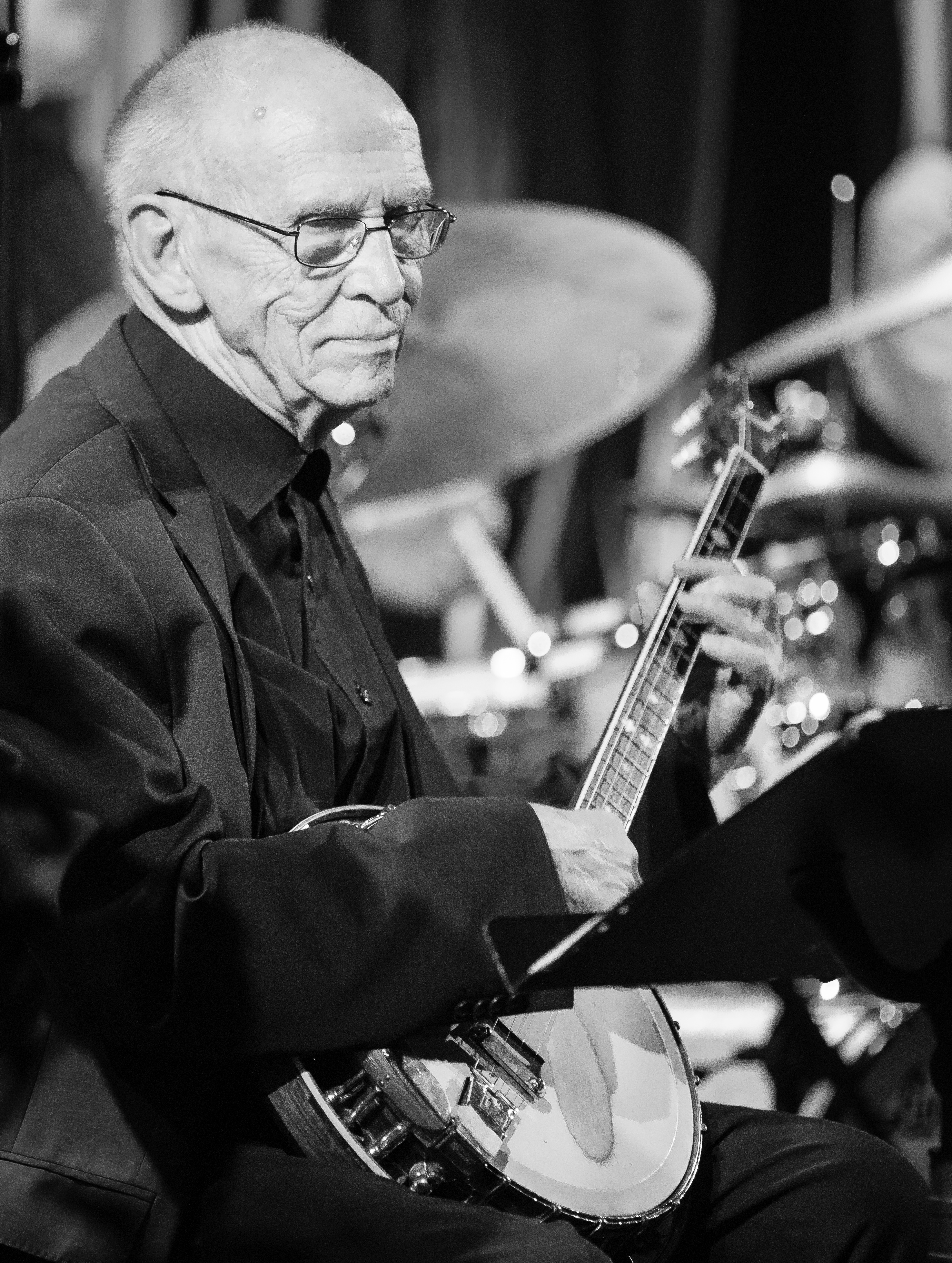 Einar Aarø in a concert with Ytre Suløens Jass-ensemble and Tricia Boutté at Thon Hotel Jølster. The concert was part of Jazz på Jølst and took place on 11. October 2019 in Jølster. Lineup:Tricia Boutté (vocal)Lars Frank (clarinet)Sturla Hauge Nilsen (trumpet)Andreas Rotevatn (trombone)Einar Aarø (banjo and guitar)David Gald (tuba)Askjell Molvær (piano)Kristoffer Tokle (drums)